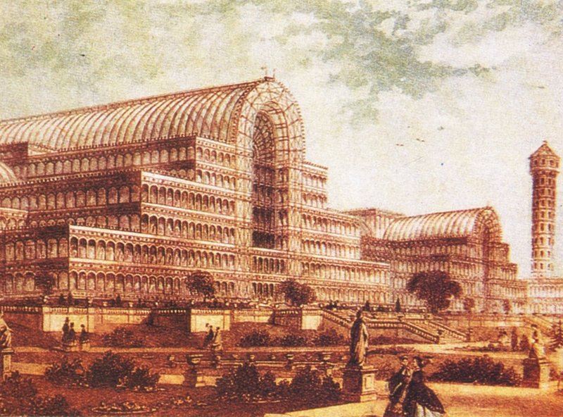 The Crystal Palace, Joseph Paxton, 1851.